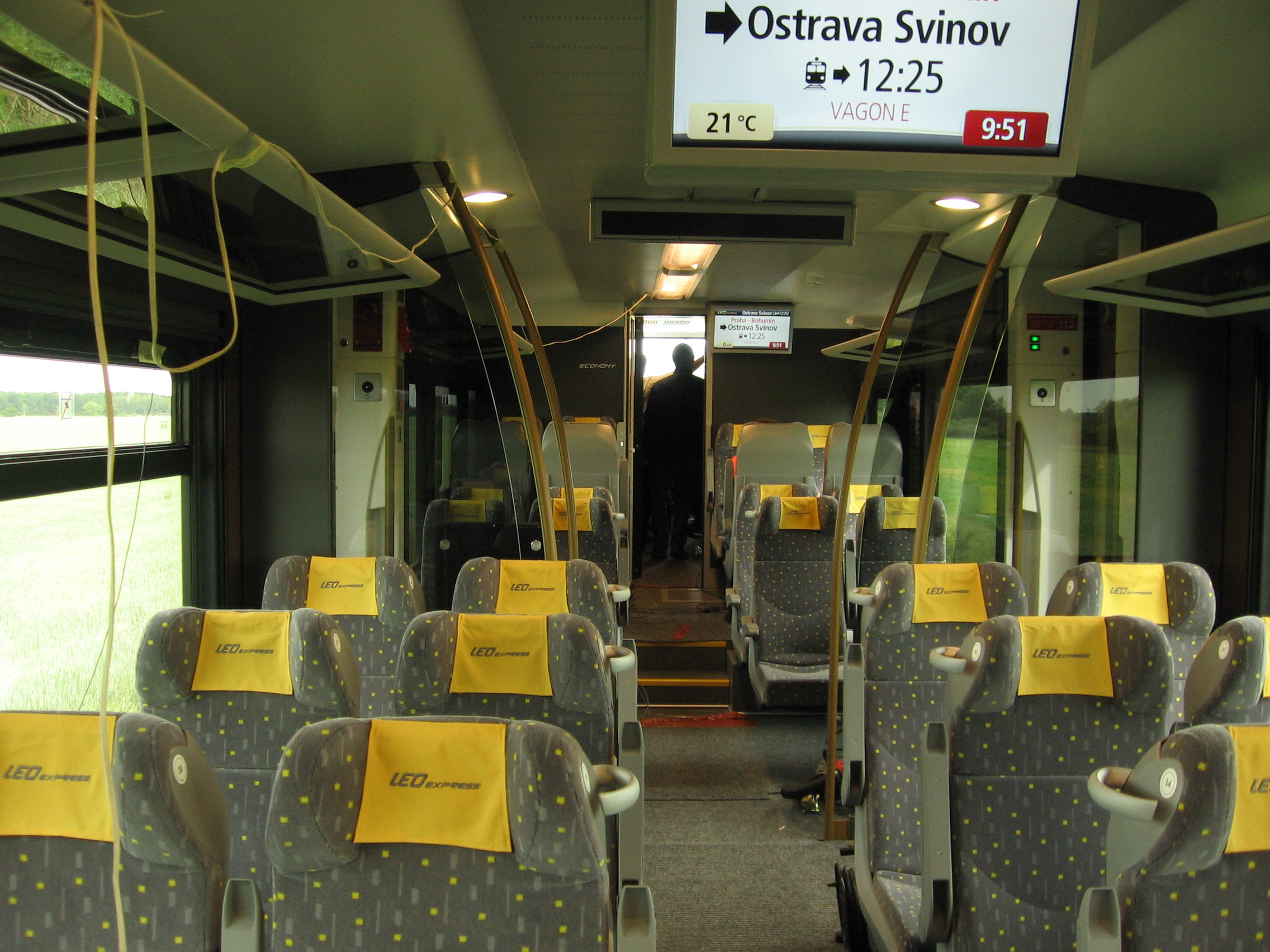 LE 480.001 - 2nd Class interior